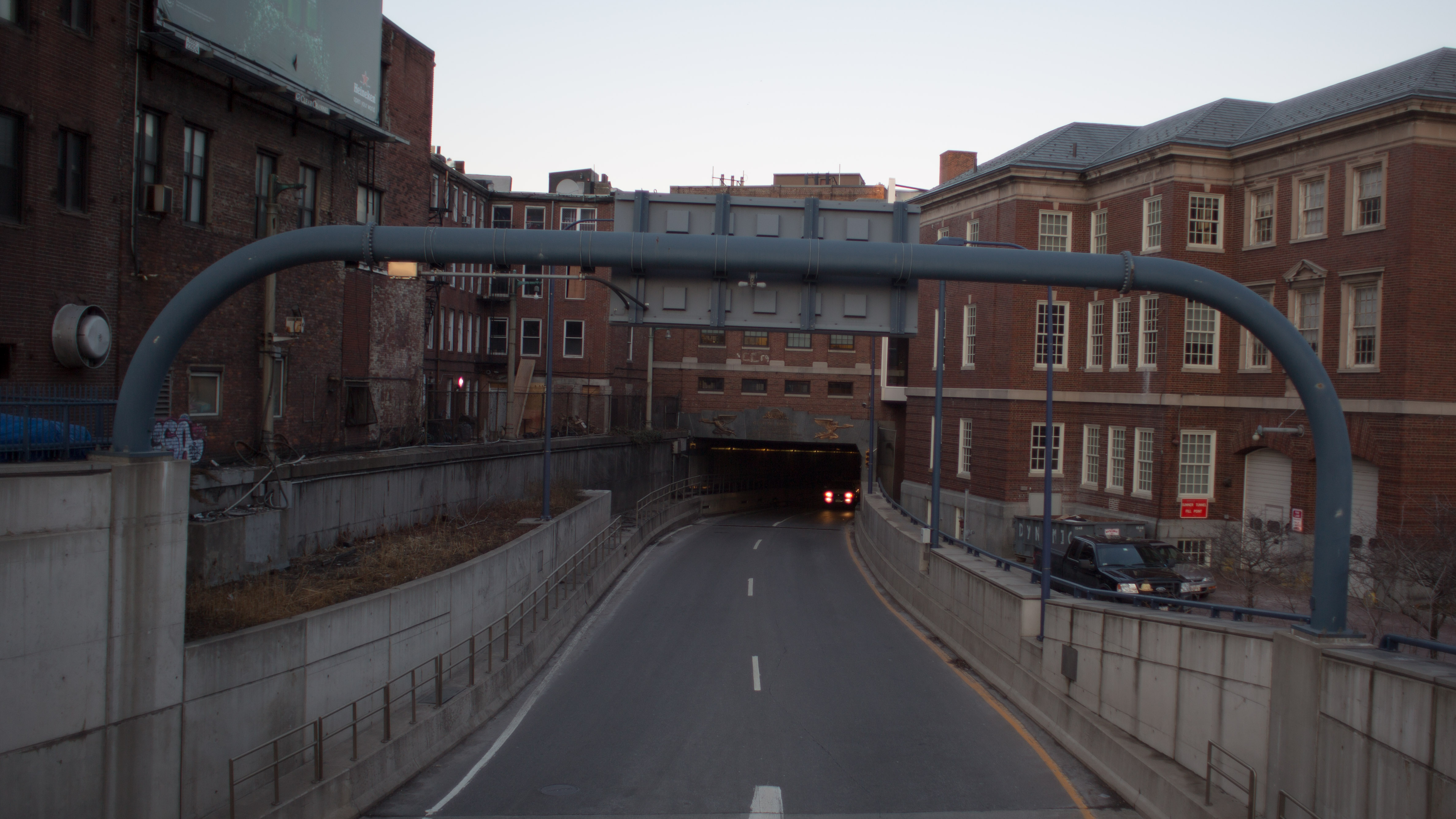 Exit from the Sumner Tunnel in downtown Boston